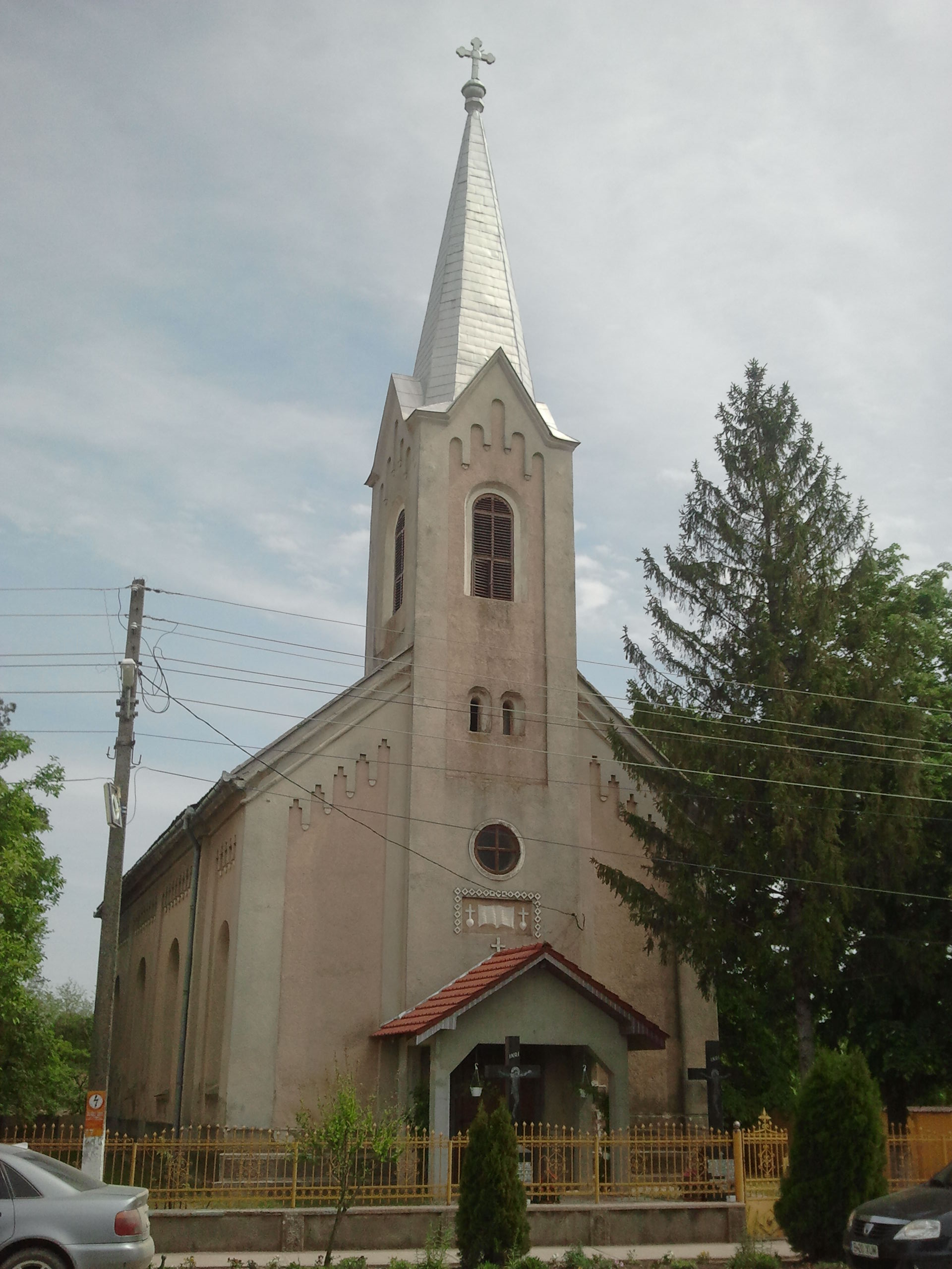 Orthodox Church, Tarcea